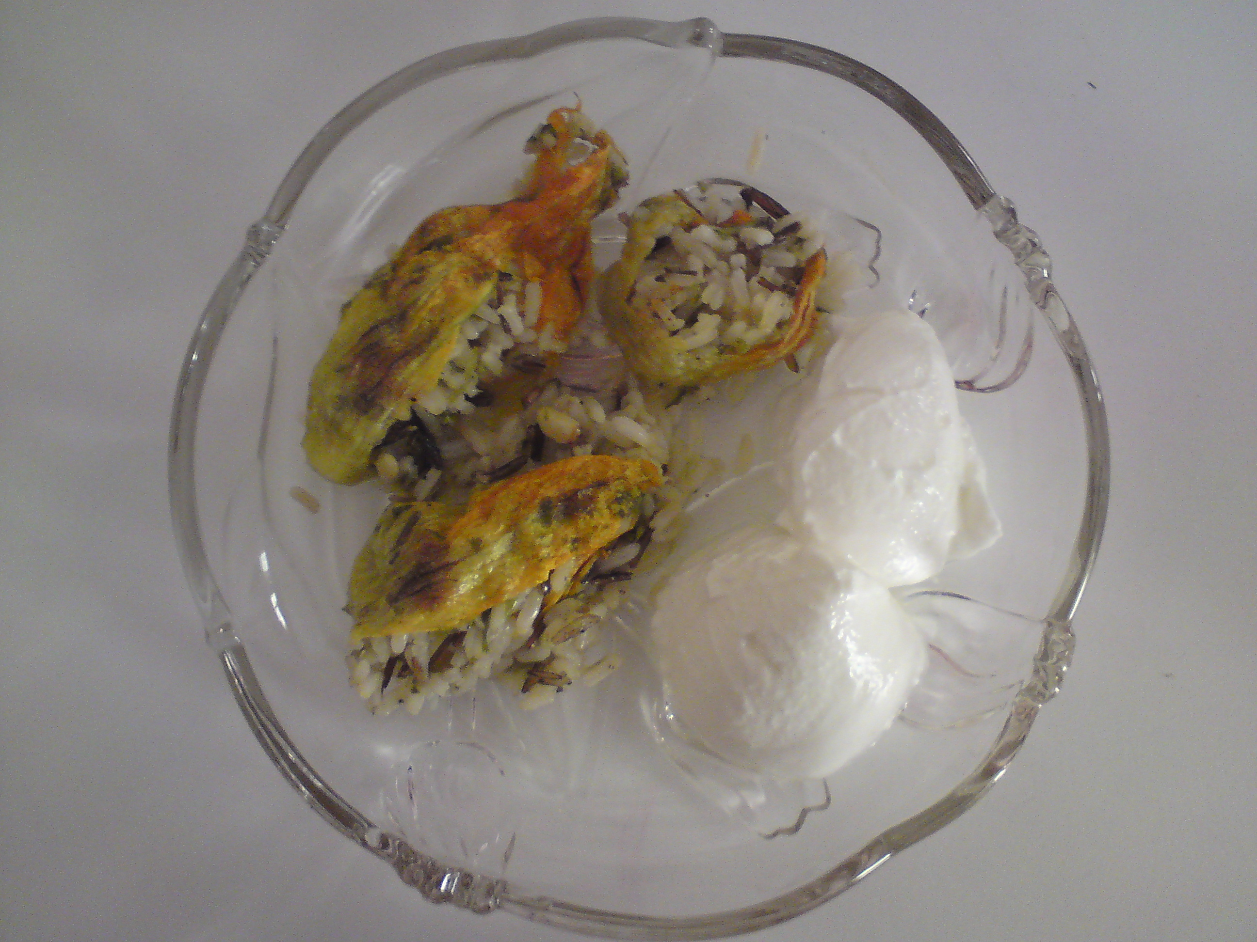 Stuffed squash flowers ("kolokythoanthoi" and "kolokythokorfades") are often served with a dollop of Greek yogurt on the side.